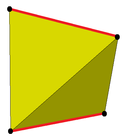 Antiprism